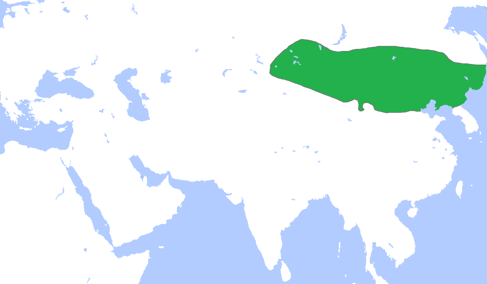 Locator map of the Khitan Empire, c. 1000. (Partially based on Atlas of World History (2007) - The World 750-1000, map)